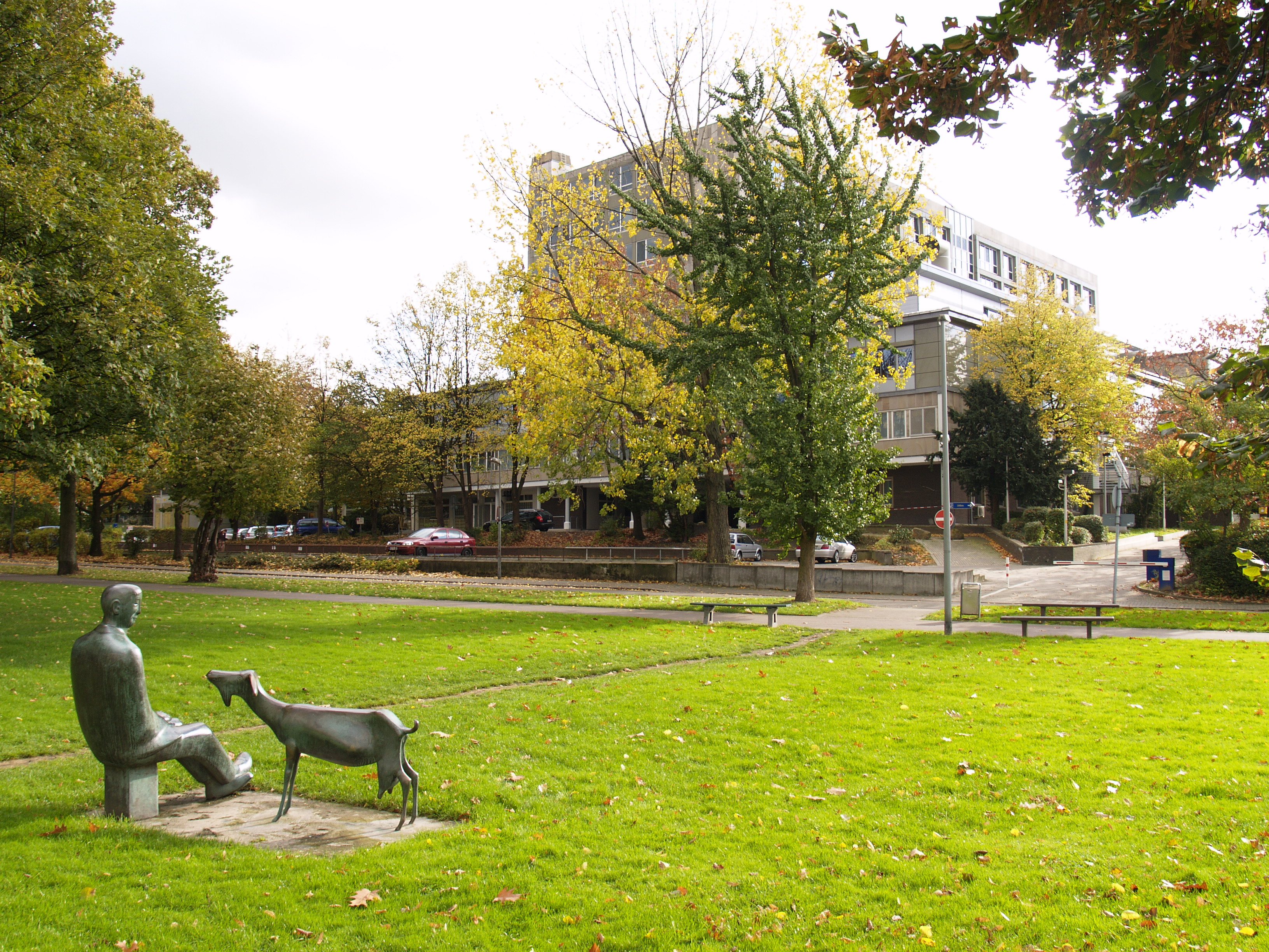 Statue of coal miners domestic goat, called 'miners cow' at Herne, Germany